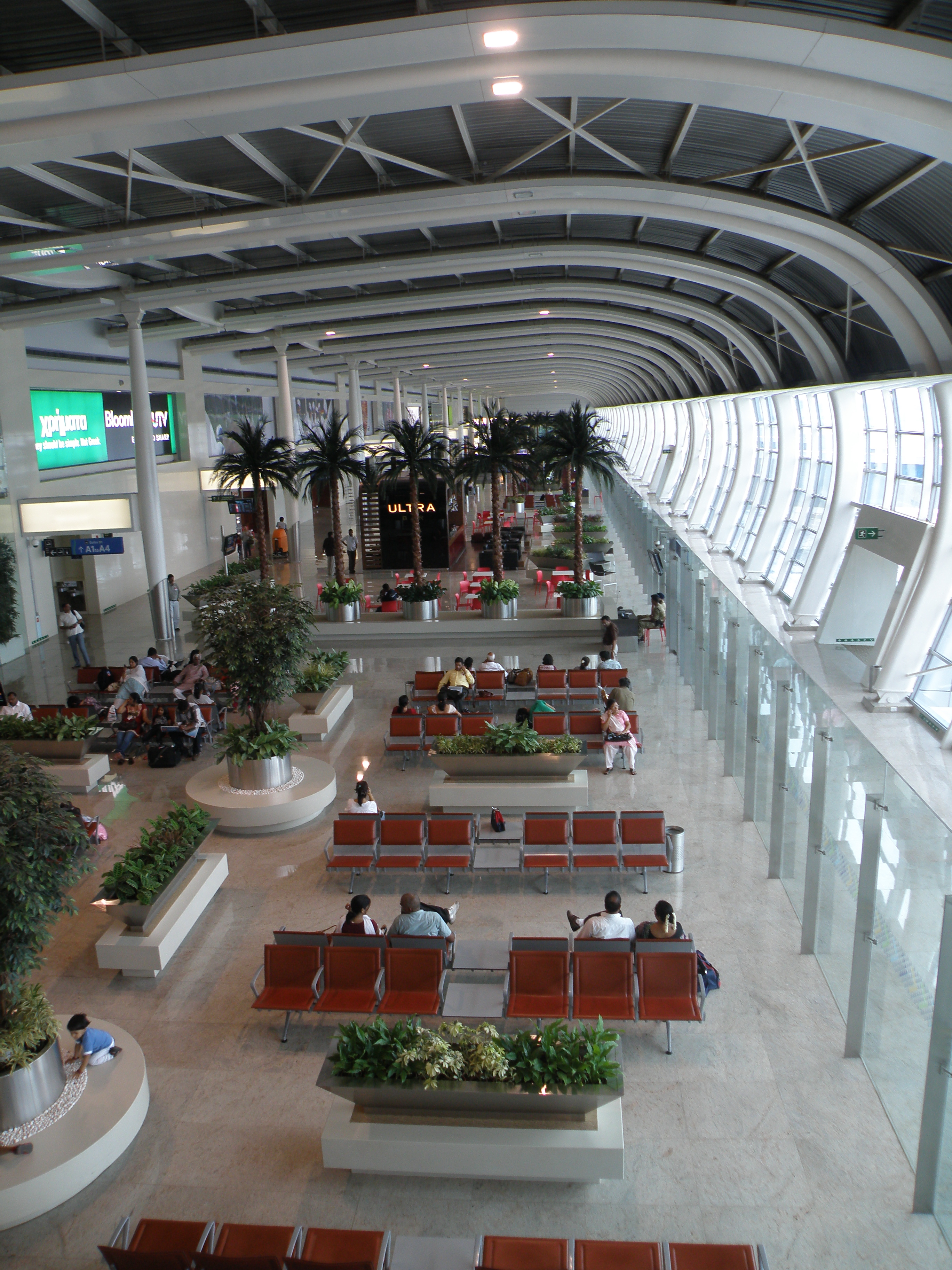 Domestic departure terminal 1C of Chhatrapati Shivaji International Airport